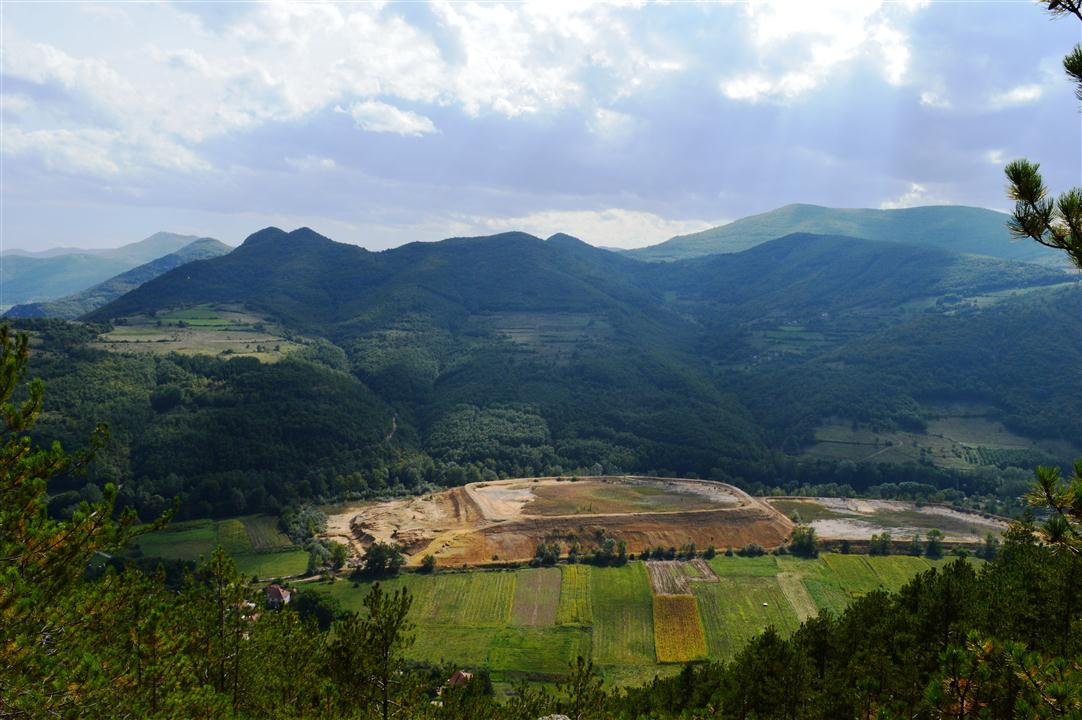 Raska Municipality - Rudnica